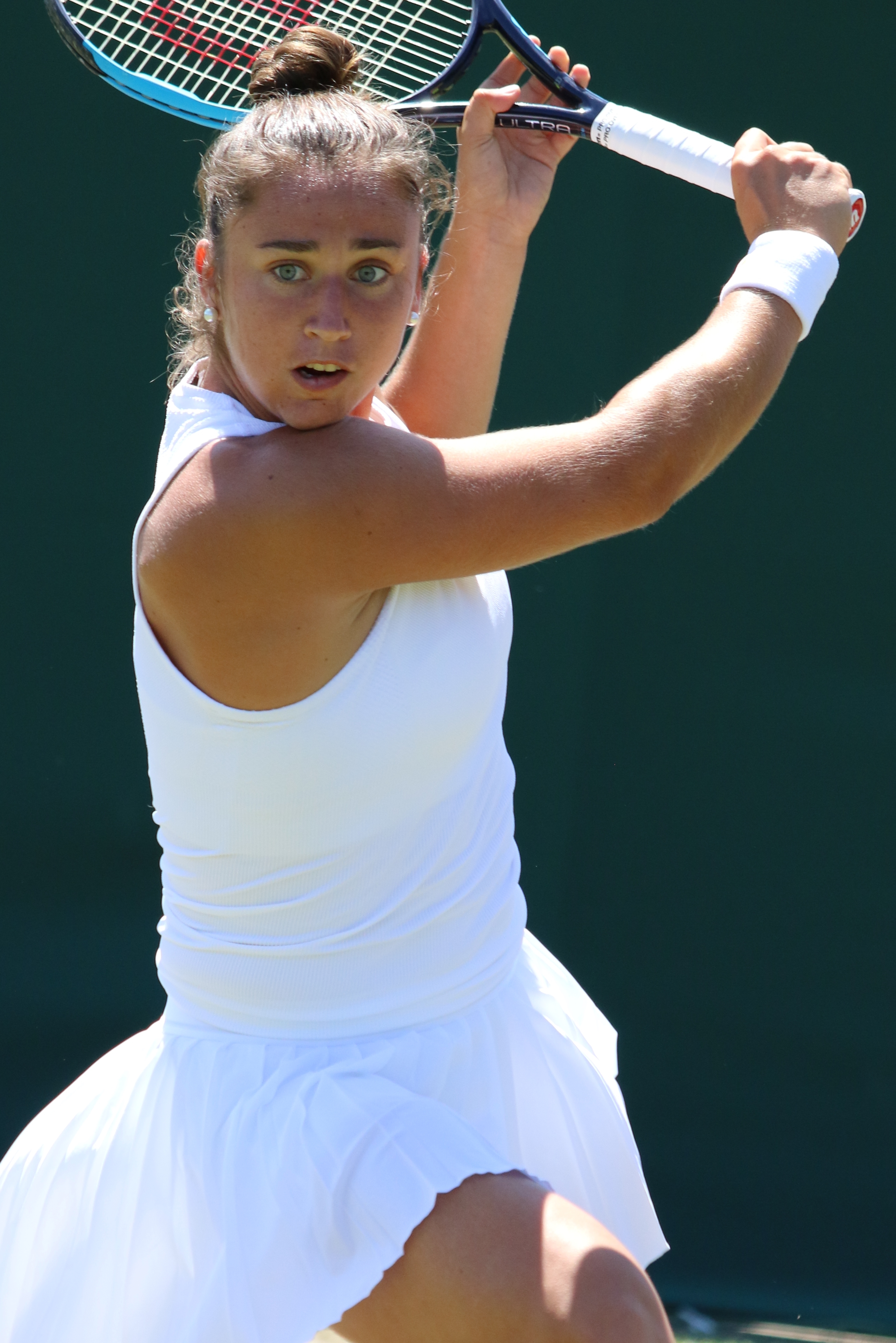 Sorribes Tormo WMQ18 (7)